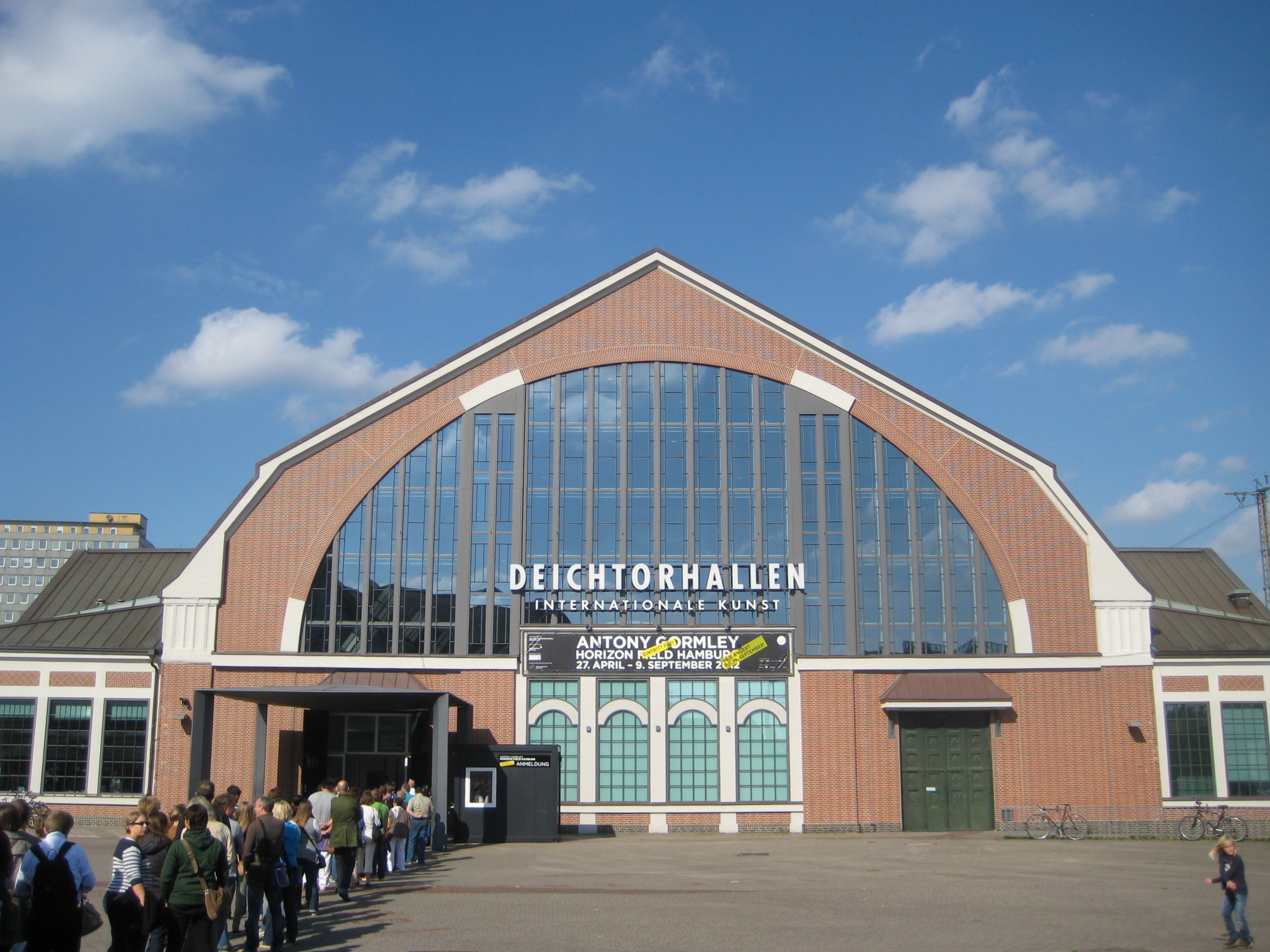 The Hall for Contemporary Art of the Deichtorhallen Museum in Hamburg, Germany, showing the Horizon Field Hamburg exhibition announcement and the queue of visitors on the closing day, September 16, 2012.